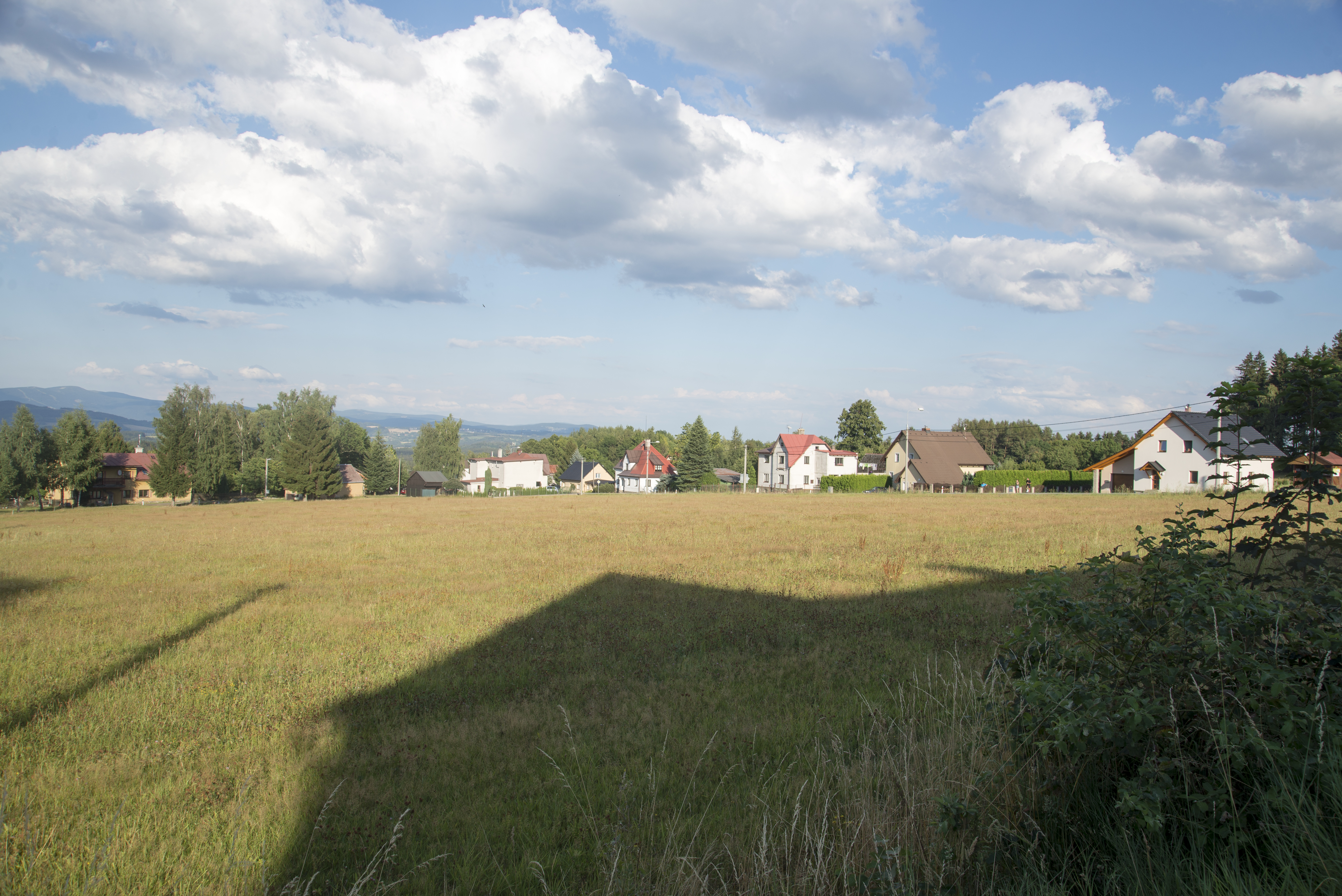 Jistebsko, part of municipality Pěnčín, district Jablonec nad Nisou, Liberec Region, Czechia